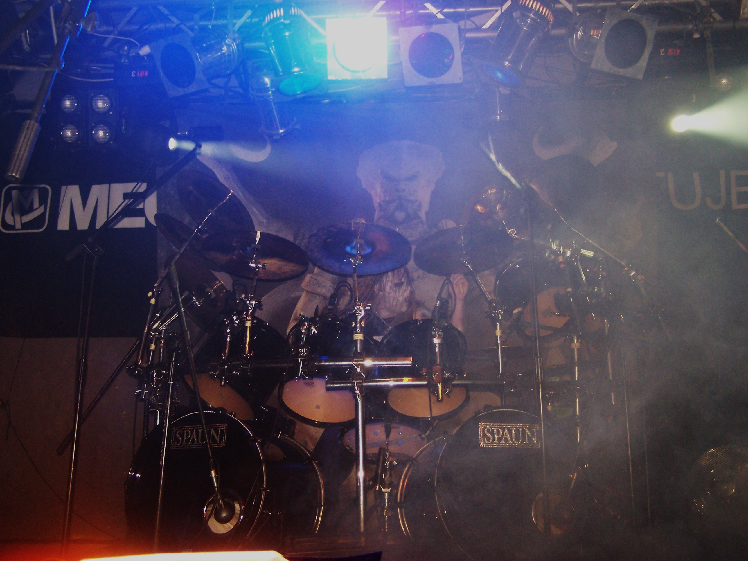 Zbigniew Promiński from Behemoth during Polish Apostasy Tour 2007 in Mega Club in Katowice.